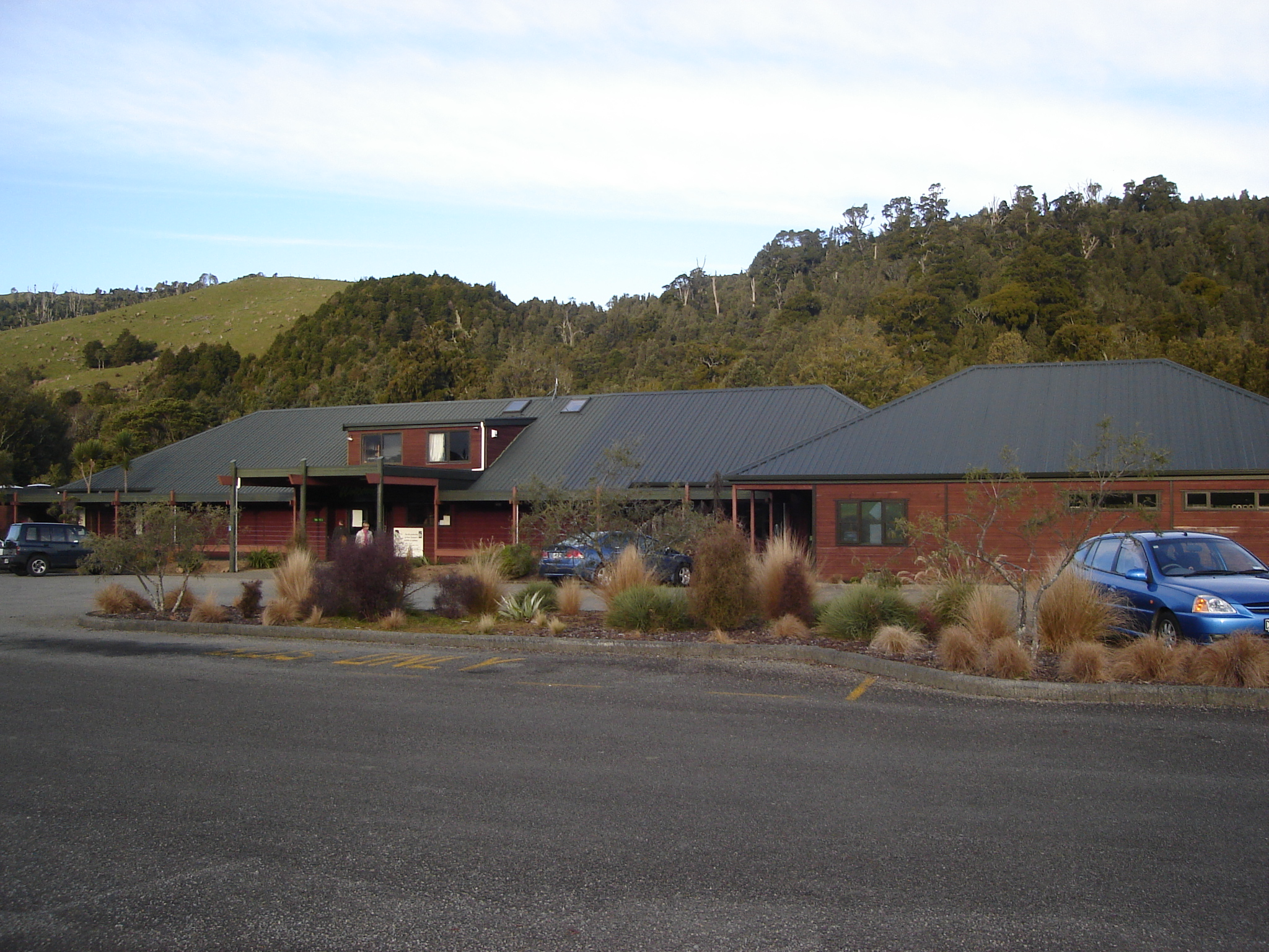 Mt Bruce National Wildlife Centre